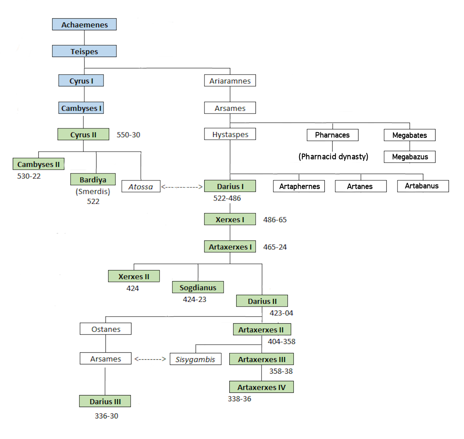 Achaemenid lineage (extended)